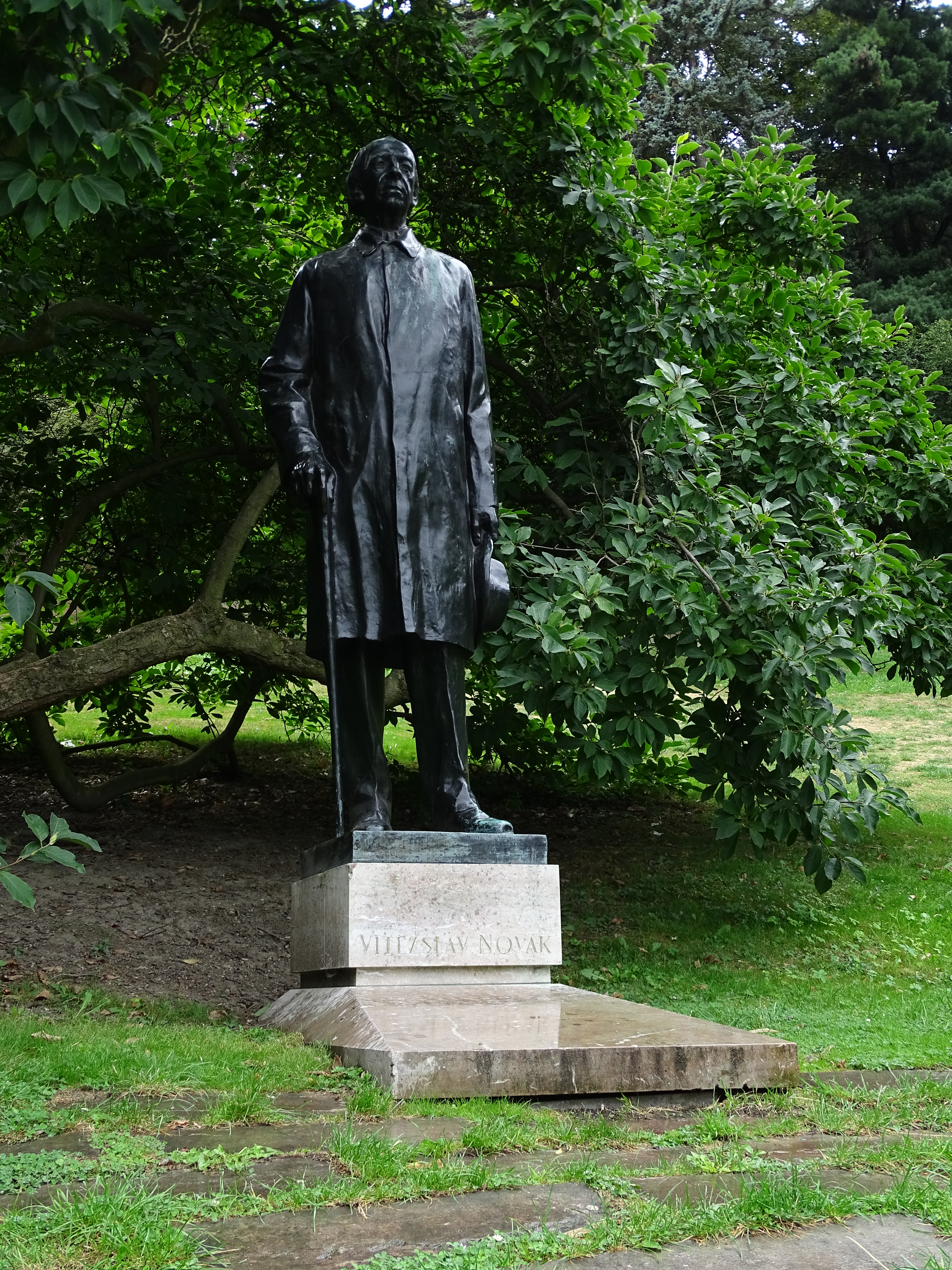 Prague-Malá Strana, Czech Republic. Petřín hill, a statue of Vítězslav Novák.